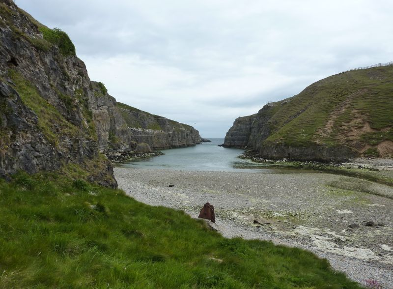 Smoo Cave, northern Scotland